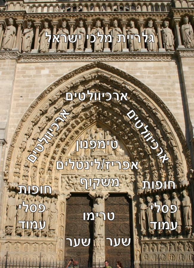 The Gothic portal (Notre-Dame de Paris) חלקי השער הגותי